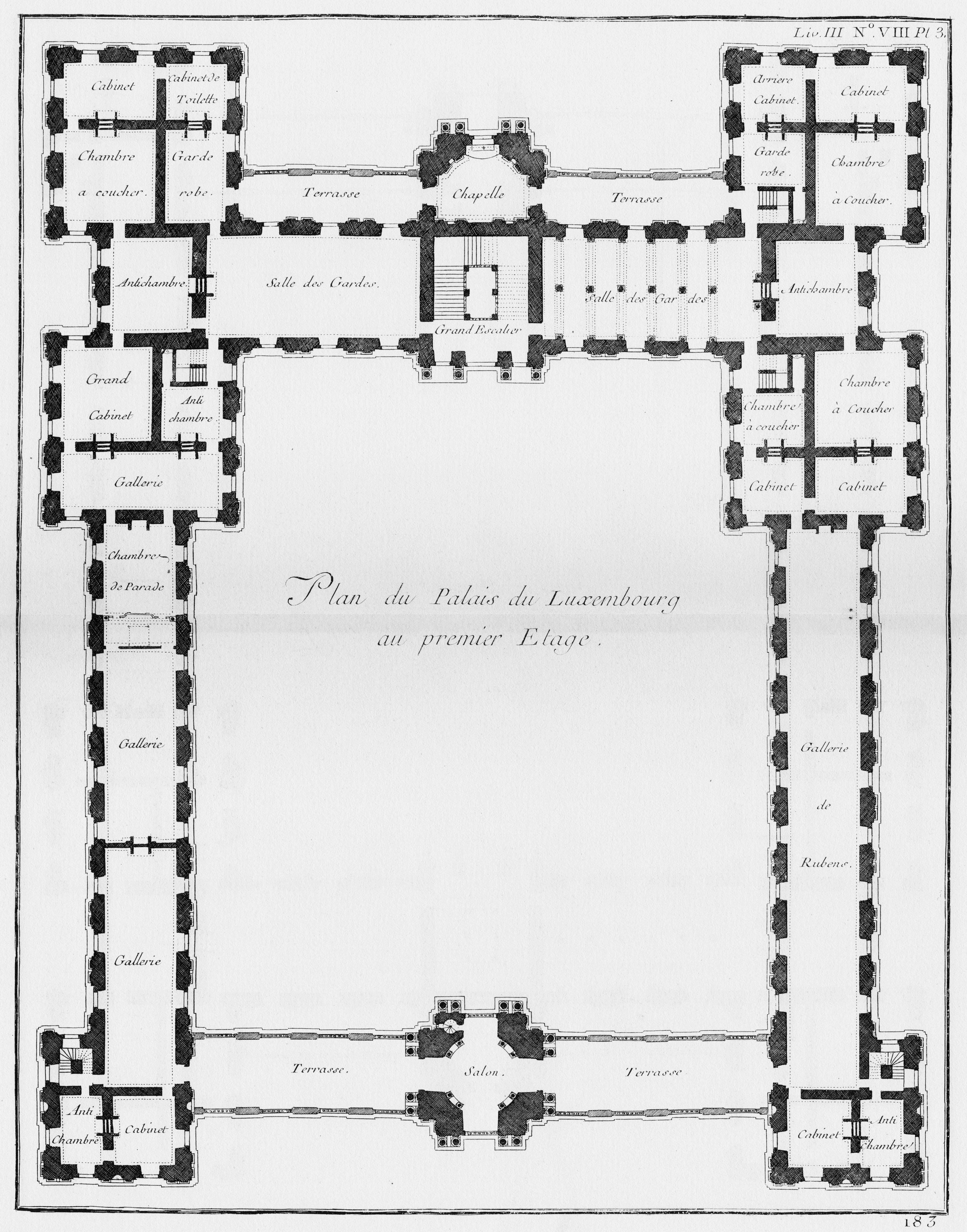 Plate 3. Plan of the first floor (piano nobile) of the Palais du Luxembourg in Paris. From Architecture françoise, Tome 2, Livre 3, Chapitre 8 (following p. 54 of the 1904 reimpression). For the original French text discussing this plate, see p. 50 of tome 2 (at Gallica).